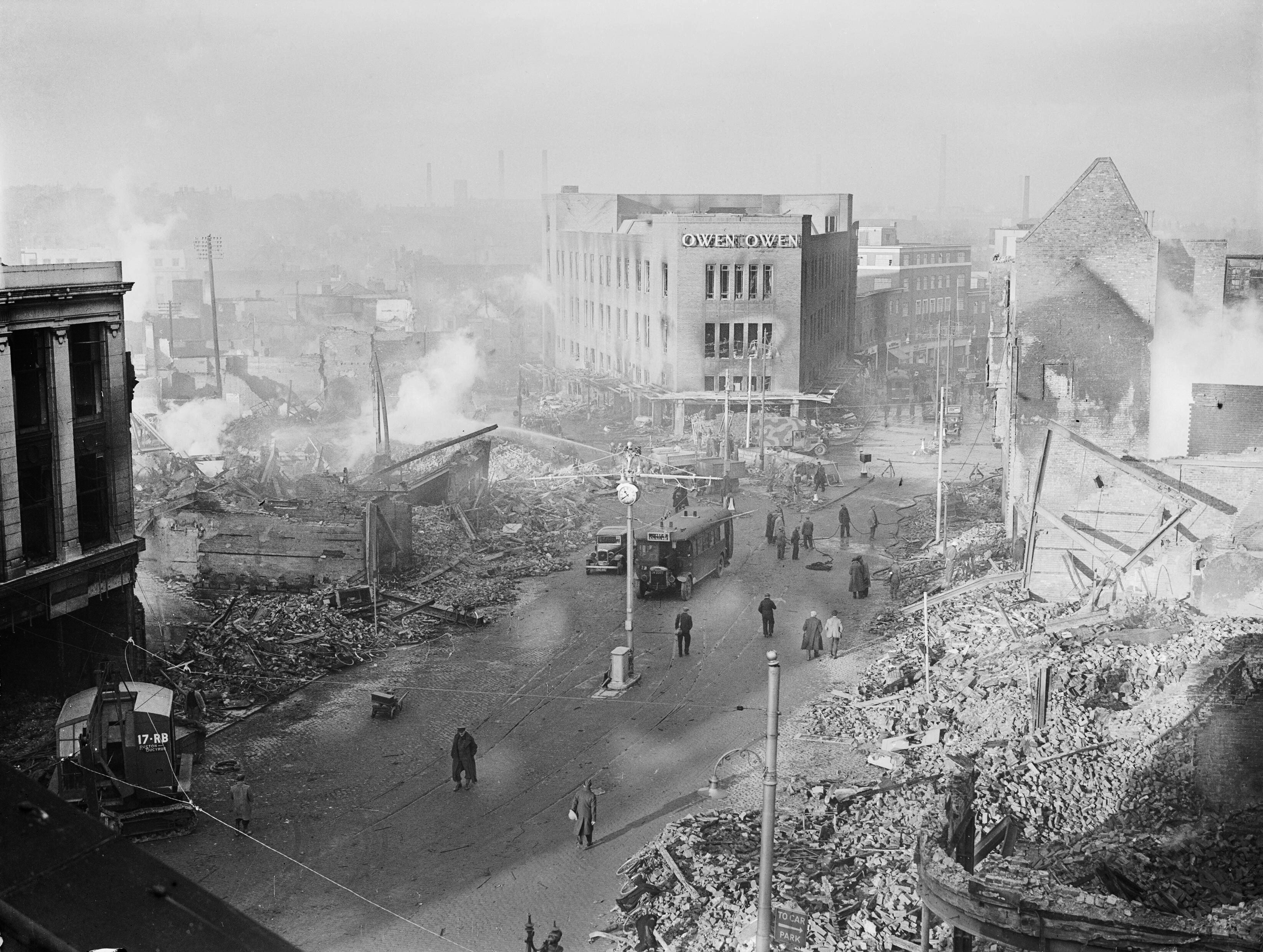 Broadgate in Coventry city centre following the Coventry Blitz of 14/15 November 1940. The burnt out shell of the Owen Owen department store (which had only opened in 1937) overlooks a scene of devastation.